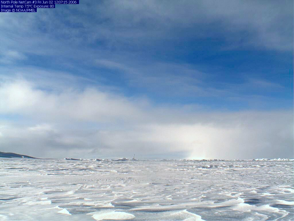 North Pole Web Cam Photo. The North Pole Web Cam is part of the North Pole Environmental Observatory, a joint National Science Foundation-sponsored effort by the Polar Science Center, / APL / UW, the Pacific Marine Environmental Laboratory / NOAA, the Japan Marine Science and Technology Center, Oregon State University, and Cold Regions Research and Engineering Laboratory. This image was taken with an automated web cam deployed at the North Pole by NOAA's Pacific Marine Environmental Laboratory. The image is freely available, however, your use of the image does not constitute an NOAA endorsement of your product or message. Credit NOAA/Pacific Marine Environmental Laboratory.